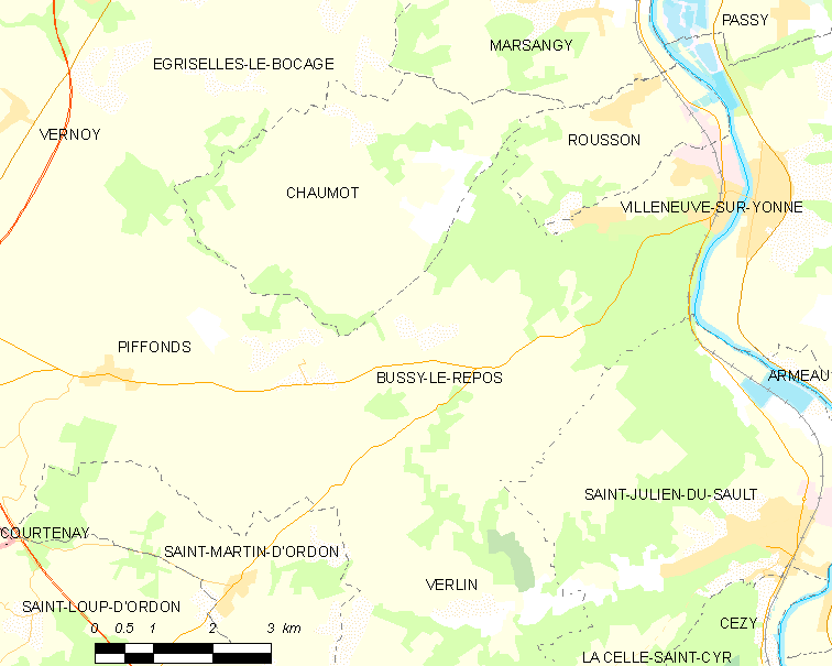 Map of French municipality Bussy-le-Repos